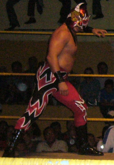 P1090034 - Mexican wrestling